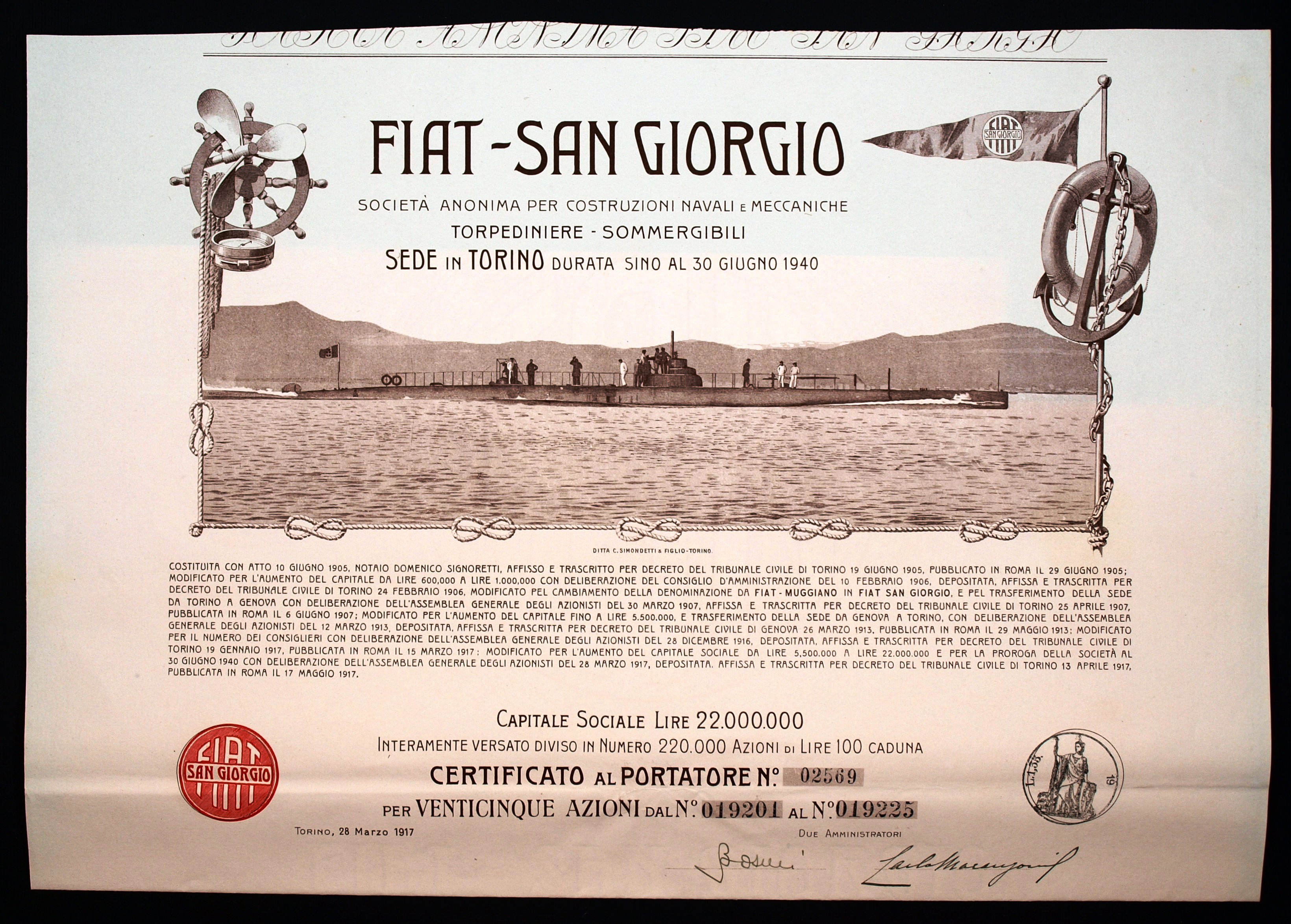 Share of FIAT-San Giorgio, issued 28. March 1917